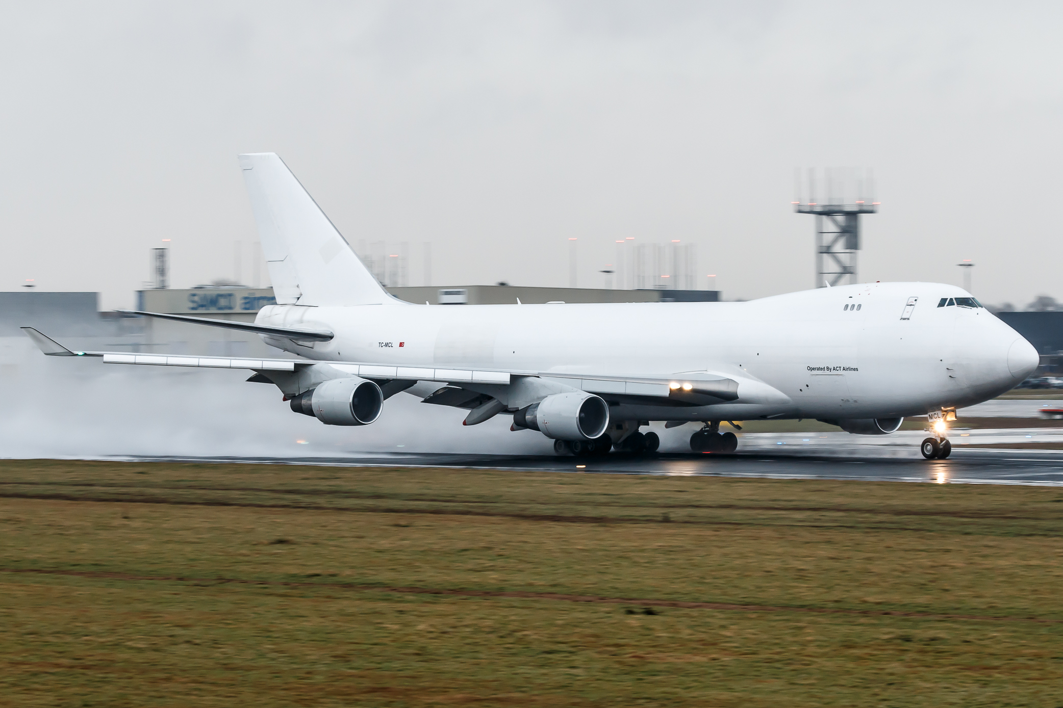 ACT Airlines Boeing 747-412F (TC-MCL) at Maastricht Aachen Airport. This aircraft crashed 5 days after the photo was taken as Turkish Airlines Flight 6491.